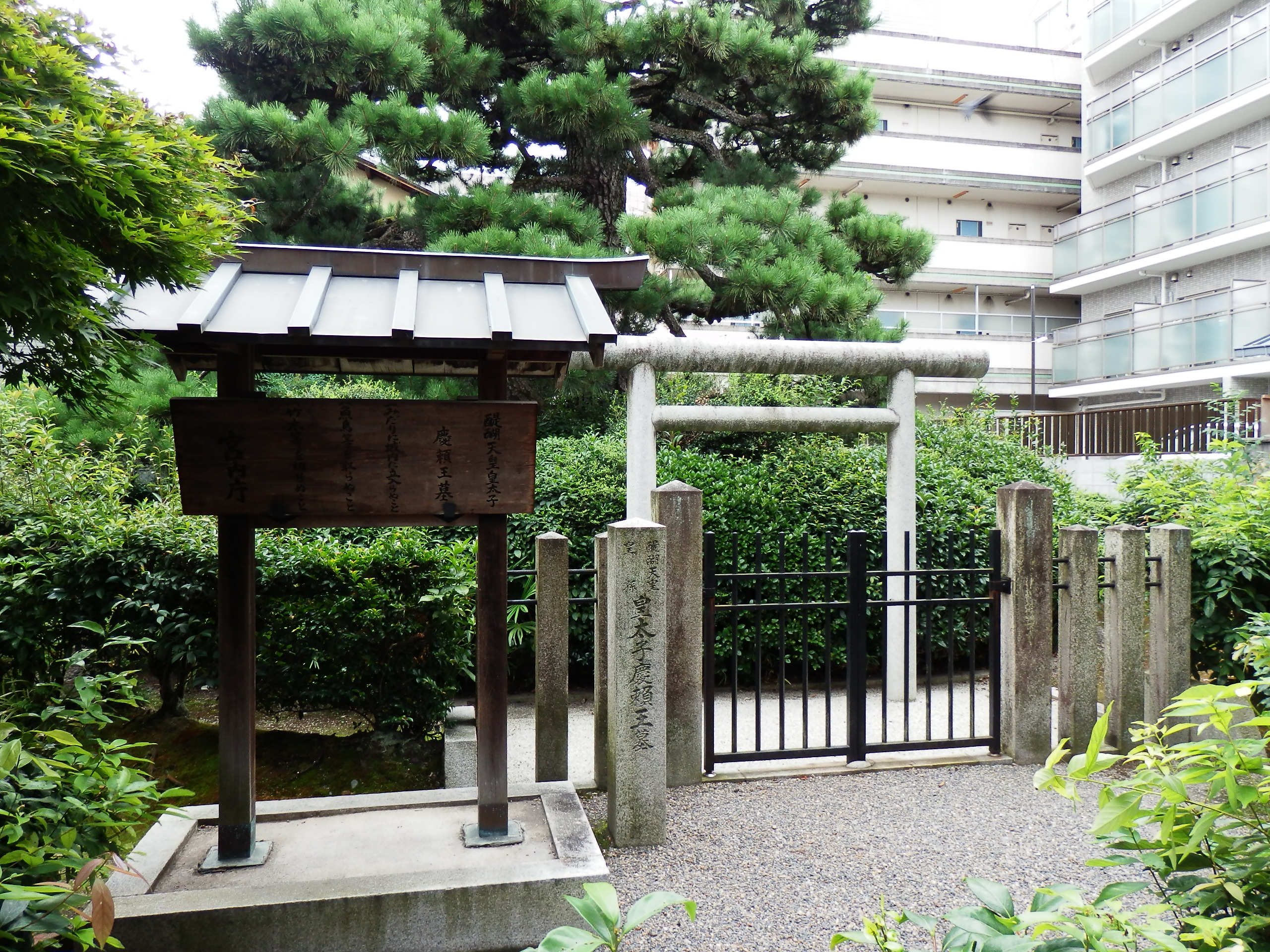 The Tomb of Prince Yoshiyori, in Sakyō-ku, Kyoto, Kyoto Prefecture, Japan